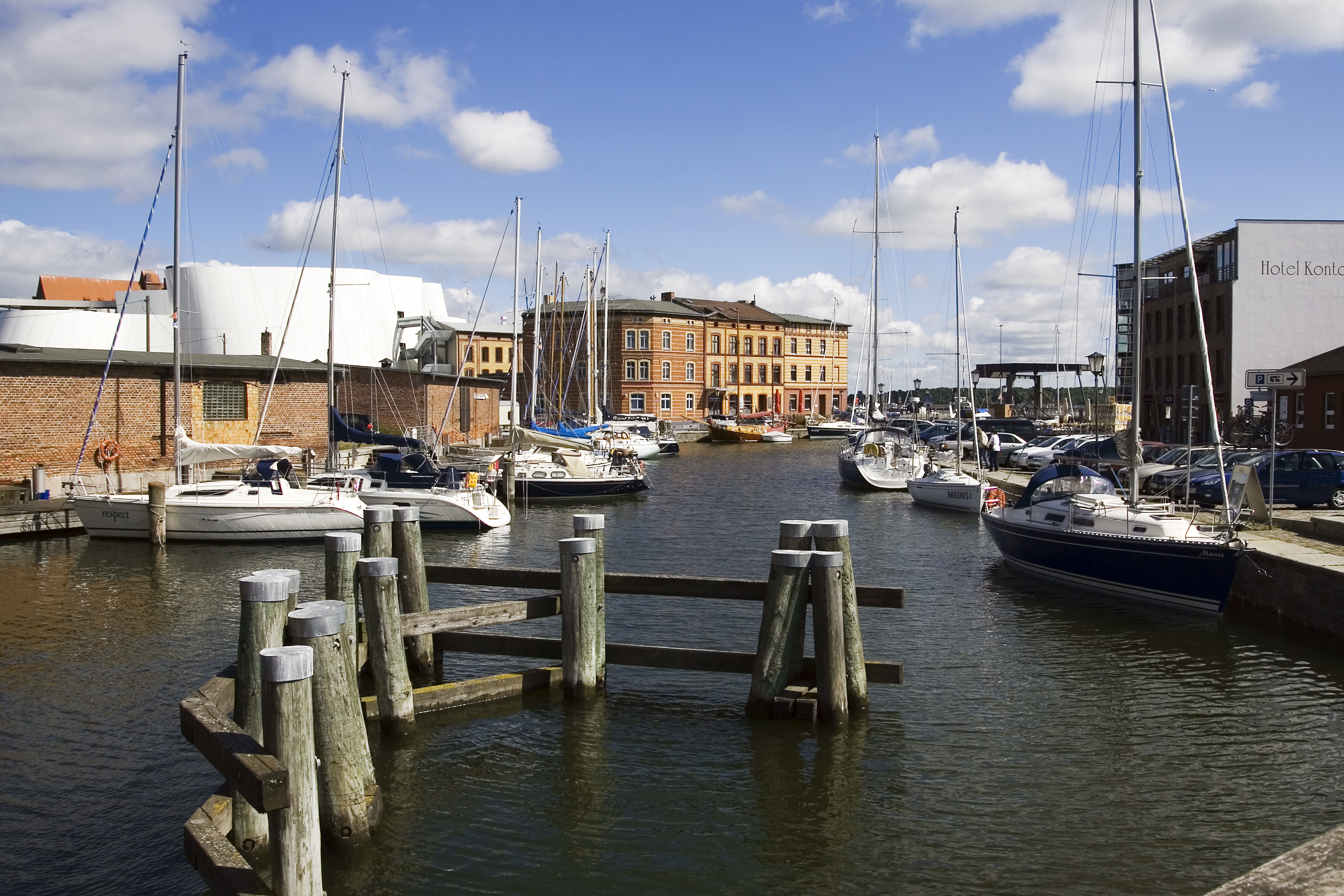 Stralsund, port